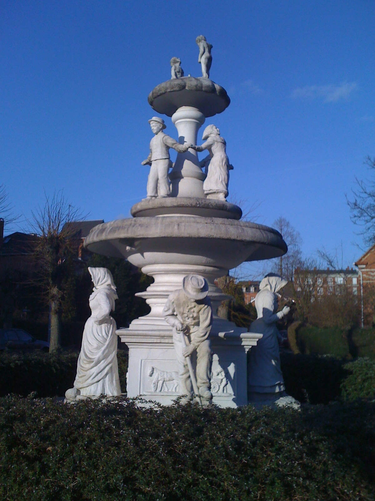 The fountain in Eberts Villaby, a cluster of single family houses in the Amager Vest district of Copenhagen, Denmark